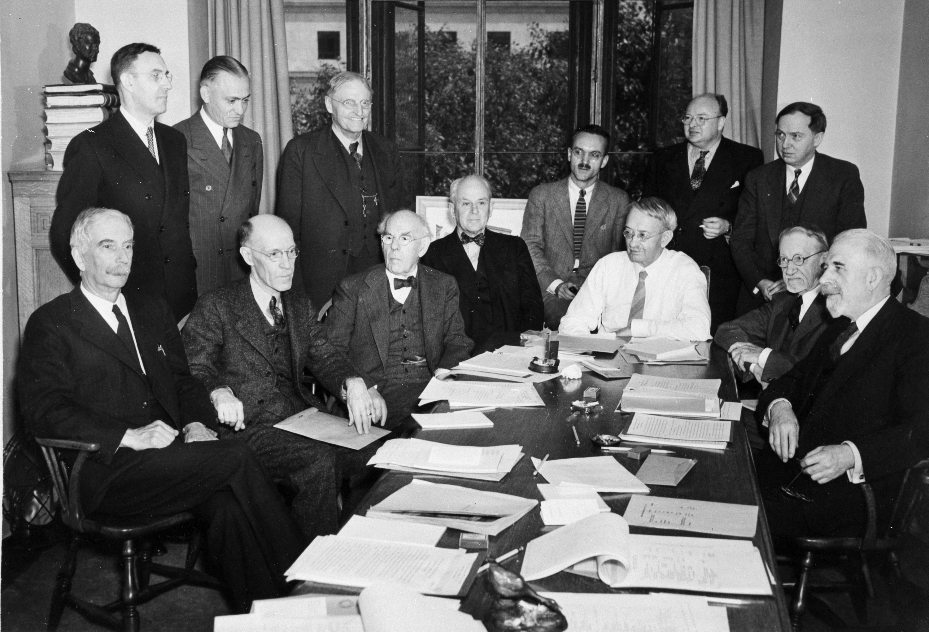 Photograph of the Science Service Board of Trustees Meeting, on May 1, 1941. Includes (left to right) seated: Dr. Charles G. Abbot (Fifth Secretary of the Smithsonian Institution, 1928-1944), Dr. Ross G. Harrison, Dr. J. McKeen Cattell, Dr. Robert A.Millikan, O. W. Riegel, Dr. Edwin G. Conklin, Dr. W. H. Howell, Dr. H. E. Howe. Standing: A. H. Kirchhofer, Frank R. Ford, Dr. Henry B. Ward, Watson Davis (Director), Dr. Harlow Shapley. The Science Service, the Institution for the Popularization of Science, was organized in 1921 as a non-profit corporation